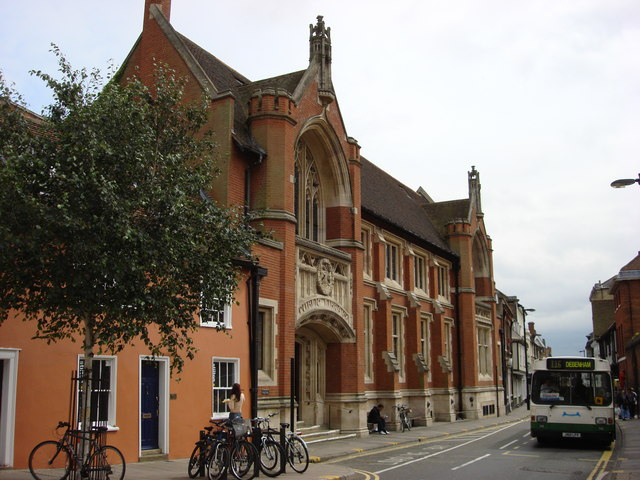 Public Library, Northgate Street, Ipswich, Suffolk